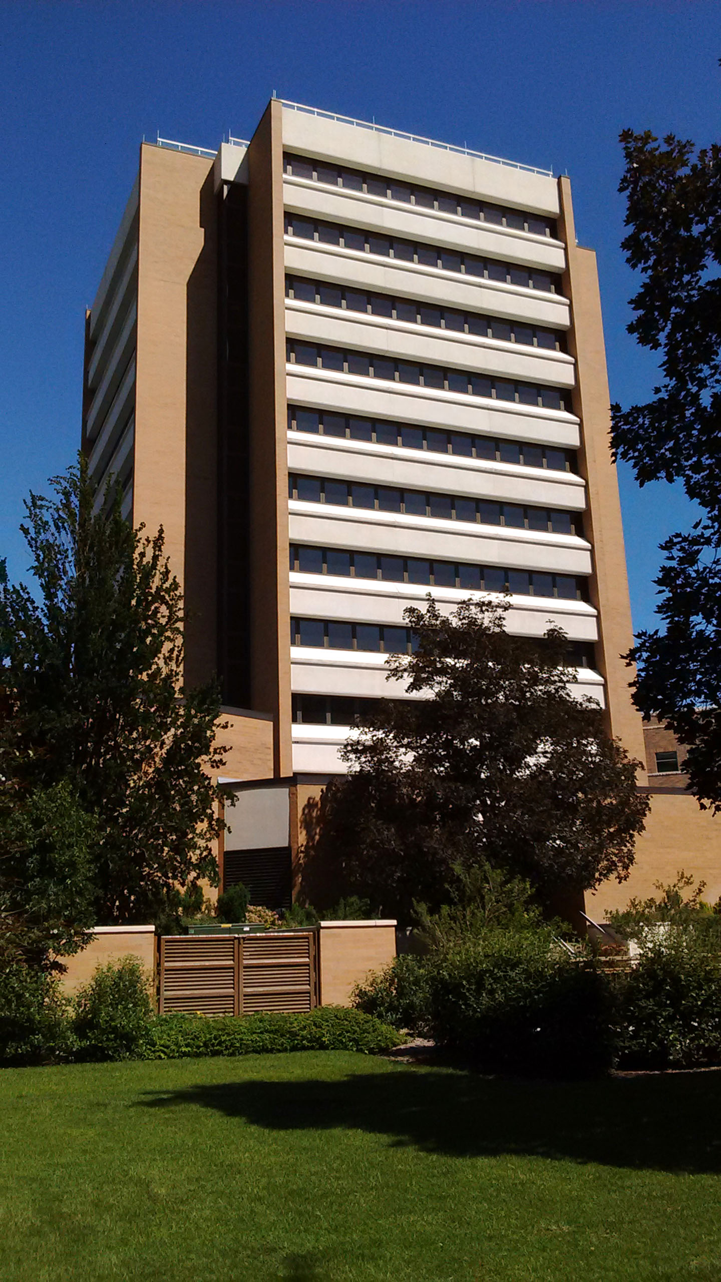 The south side of the Spencer W. Kimball Tower (SWKT, pronounced "swicket") on the campus of Brigham Young University.